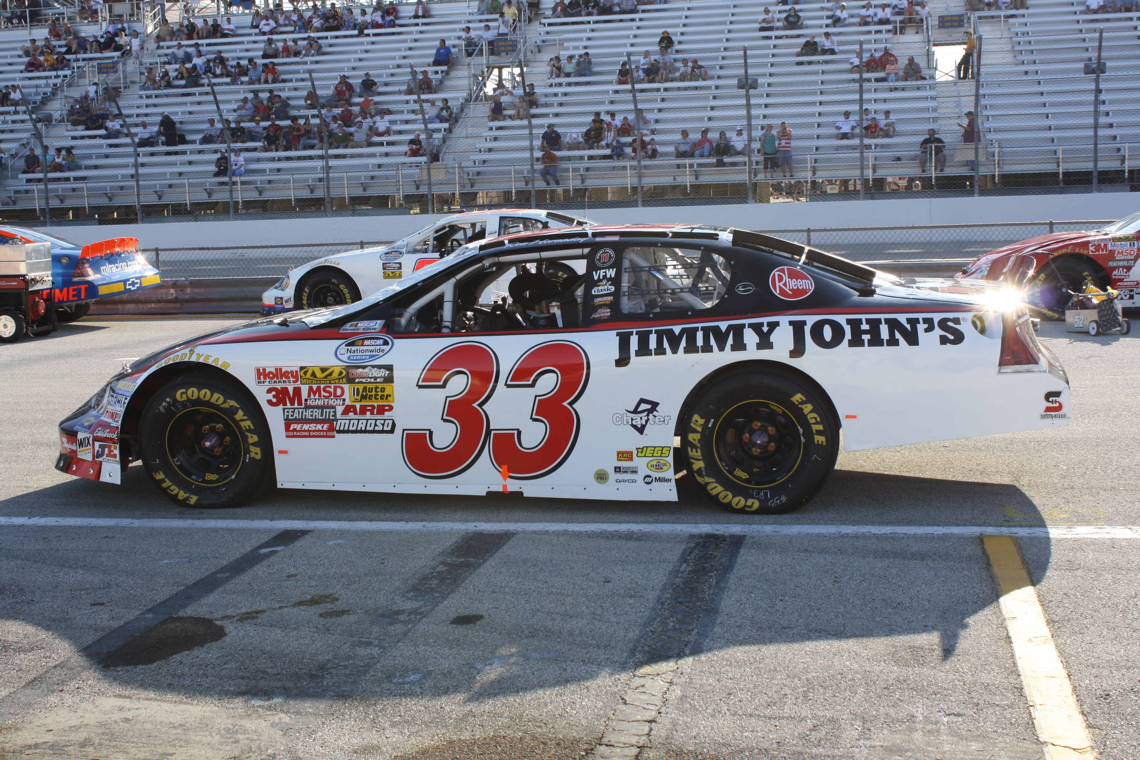 NASCAR driver Ron Hornadays Chevrolet at the 2009 Northern 250 Nationwide Series race at the Milwaukee Mile.